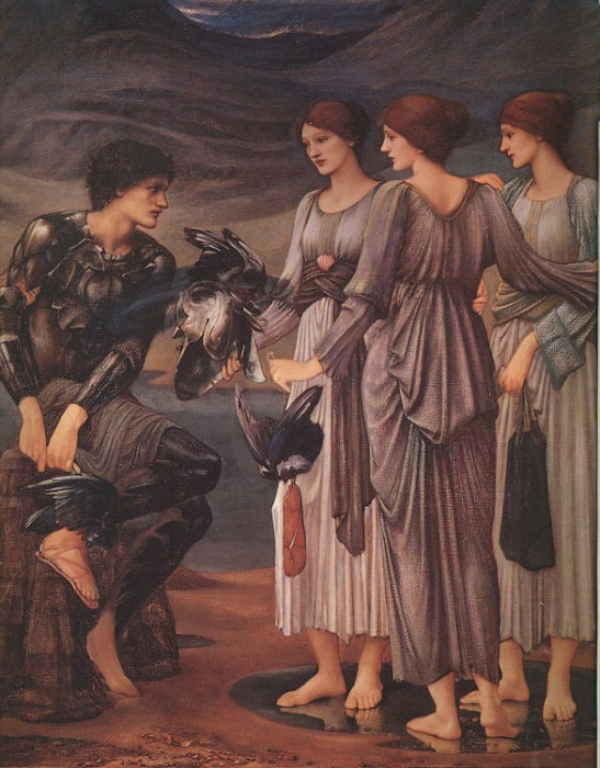 The Arming of Perseus (1885) by Edward Burne-Jones